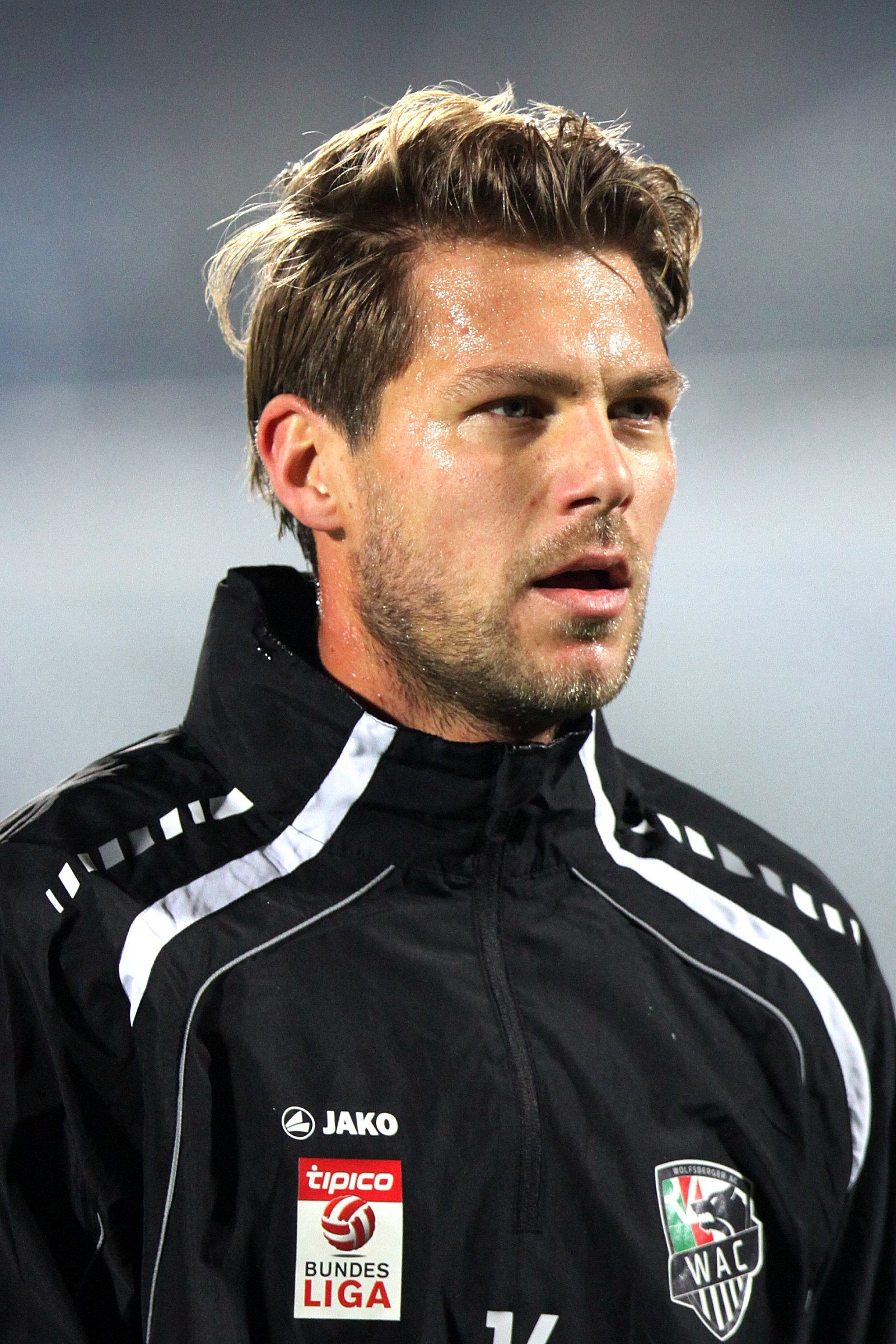 2014–15 Austrian Football Bundesliga: SC Wiener Neustadt vs. Wolfsberger AC (2:0 / 0:0) at 2014-11-22 in the Stadion Wiener Neustadt. – The photo shows en: (SC Wiener Neustadt/Wolfsberger AC). The making of this work was supported by Wikimedia Austria. For other files made with the support of Wikimedia Austria, please see the category Supported by Wikimedia Österreich.